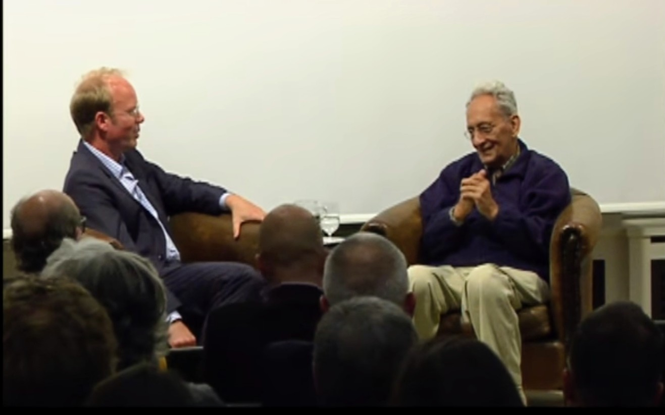 On the occasion of the exhibition "Frank Stella - The Retrospective. Works 1958 - 2012," at the Kunstmuseum Wolfsburg, the American Academy in Berlin hosted a conversation between Stella and Hanno Rauterberg of Die Zeit on the distinctive and groundbreaking work of the renowned American artist. From early recognition of his departure from abstract expressionism through recent retrospectives of his vast and diverse oeuvre, Stella has been celebrated for his boldness in challenging convention and willingness to innovate in works that have grown in complexity and scale throughout his artistic career. With his turn "from Minimalism to Maximalismn ," he established himself as one of the most distinctive artists of the 20th century.